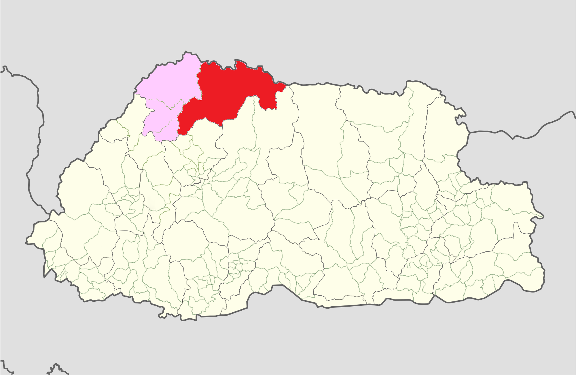 Lunana Gewog within Gasa District, Bhutan